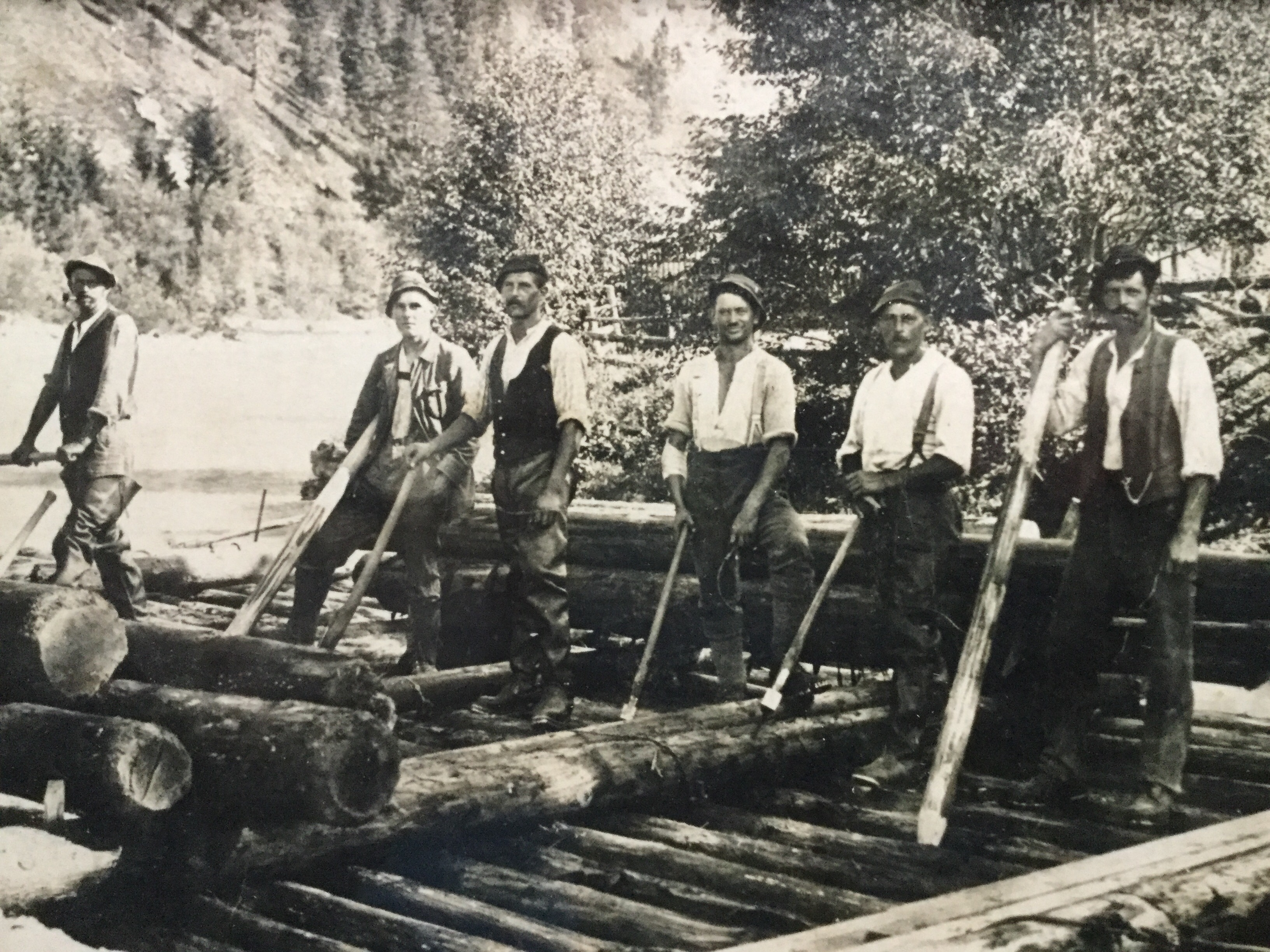 Familie Bader Flößer von Mittenwald